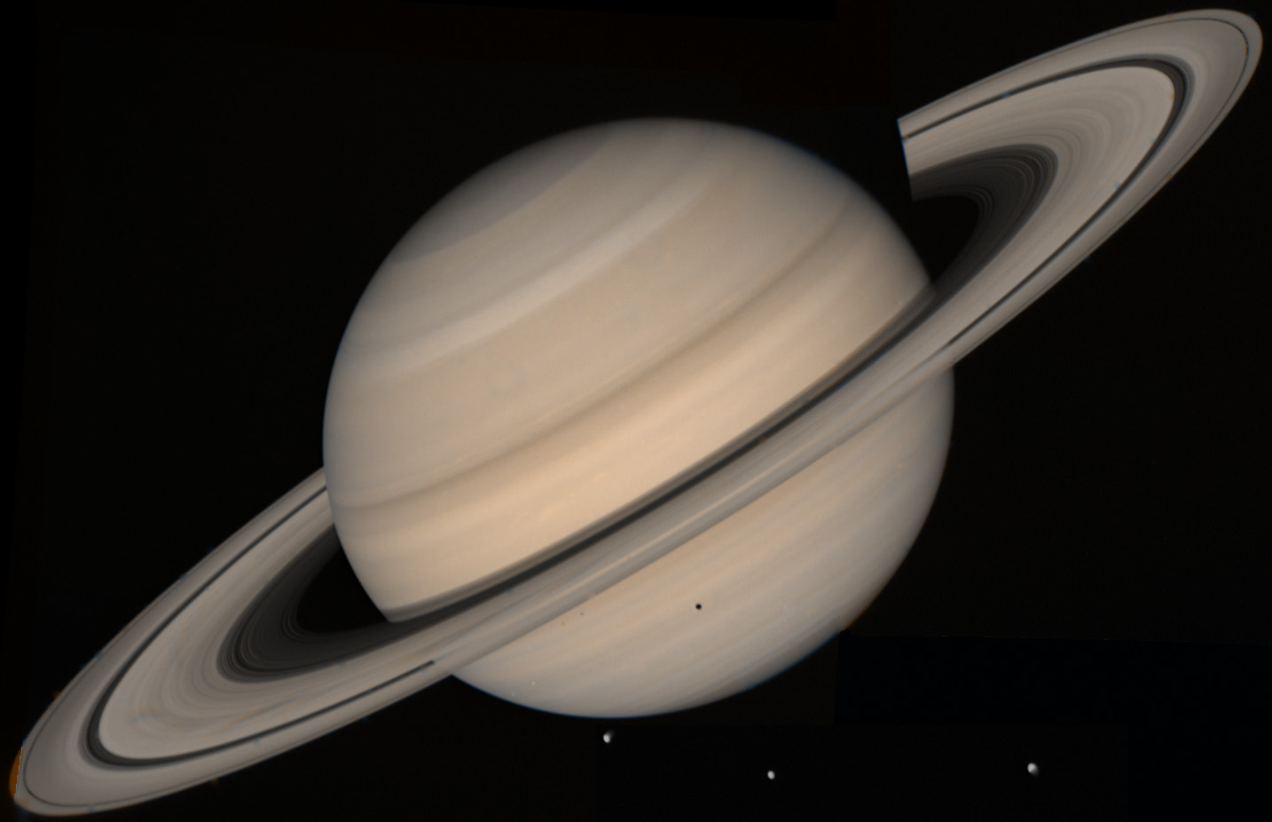 Saturn planet, seen by Voyager 2. Original Caption Released with Image This true color picture was assembled from Voyager 2 Saturn images obtained Aug. 4 from a distance of 21 million kilometers (13 million miles) on the spacecraft's approach trajectory. Three of Saturn's icy moons are evident at left. They are, in order of distance from the planet: Tethys, 1,050 km. (652 mi.) in diameter; Dione, 1,120 km. (696 mi.); and Rhea, 1,530 km. (951 mi.). The shadow of Tethys appears on Saturn's southern hemisphere. A fourth satellite, Mimas, is less evident, appearing as a bright spot a quarter-inch in in from the planet's limb about half an inch above Tethys; the shadow of Mimas appears on the planet about three-quarters of an inch directly above that of Tethys. The pastel and yellow hues on the planet reveal many contrasting bright and darker bands in both hemispheres of Saturn's weather system. The Voyager project is managed for NASA by the Jet Propulsion Laboratory, Pasadena, Calif.